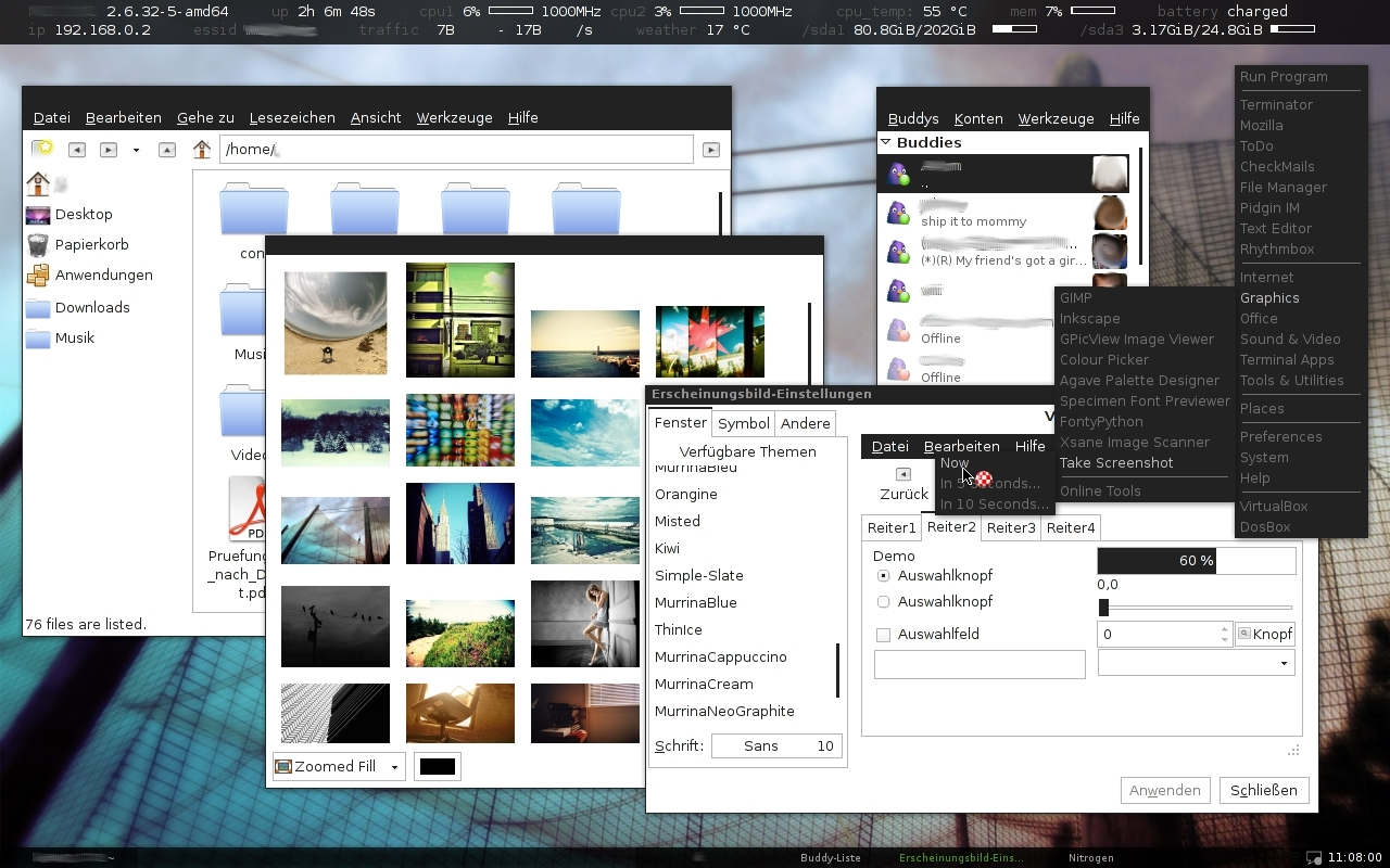 Screenshot of the Openbox Windowmanager with Conky, PCManFileManager, Pidgin Instant Messenger, Nitrogen, lxconf, and the tint2 panel.